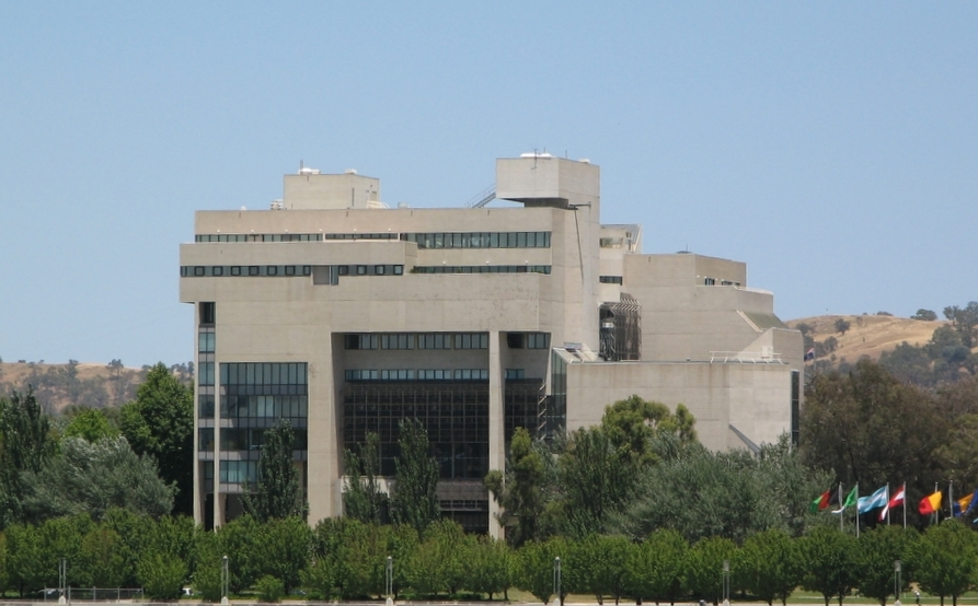 High Court of Australia, Canberra, building exterior